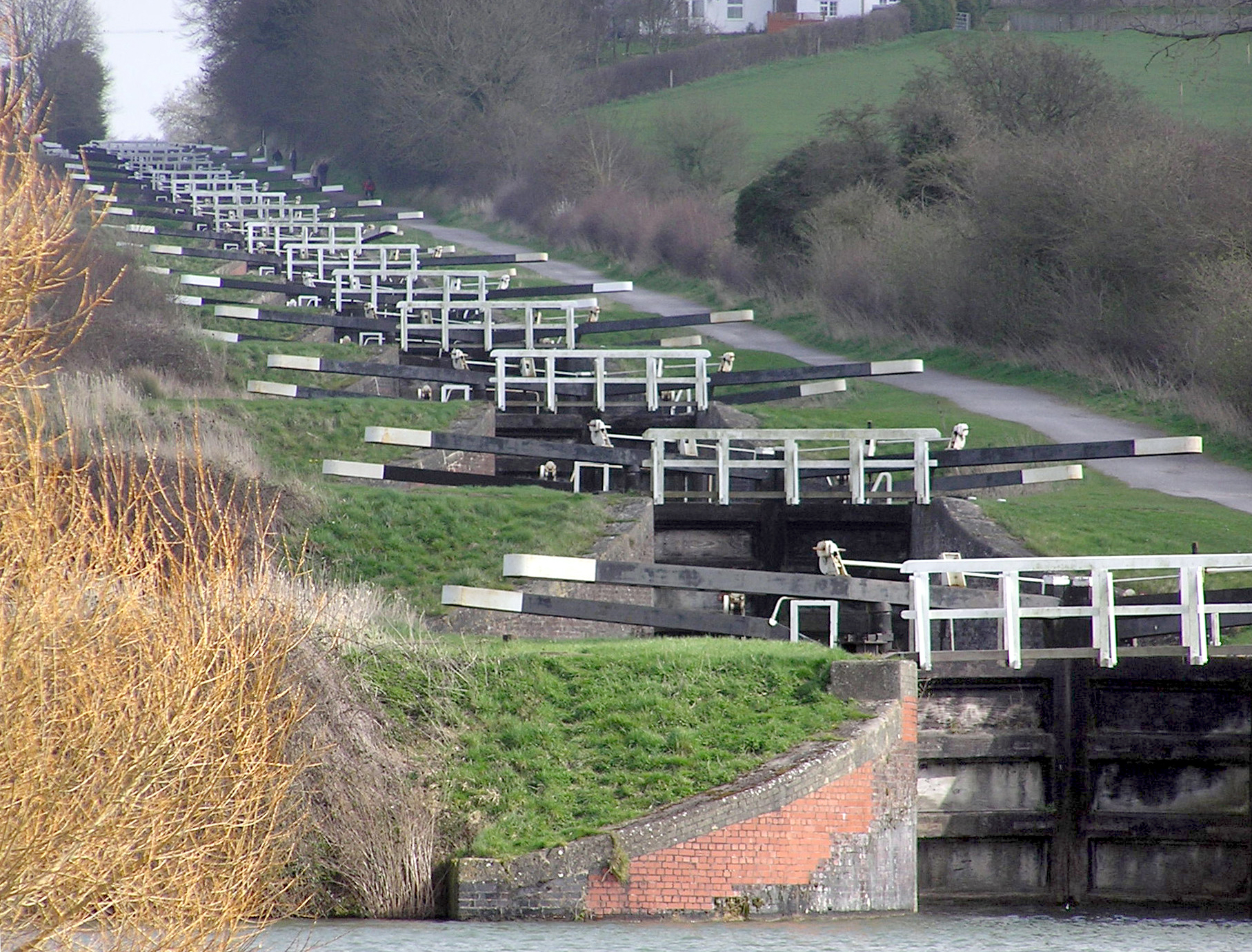 The Caen Hill locks, on the Kennet and Avon Canal, Devizes, Wiltshire, England, in early Spring. The sixteen locks of Caen Hill (seen in this picture), and a further 13 locks, stretch over only 2 miles of the canal. The large side ponds are not seen here. The white "fences" are bridges across each lock. The building of these locks in 1810 marked completion of the whole 57 mile distance from Newbury to Bath. Photographed by Adrian Pingstone in March 2007 and placed in the public domain. Other versions